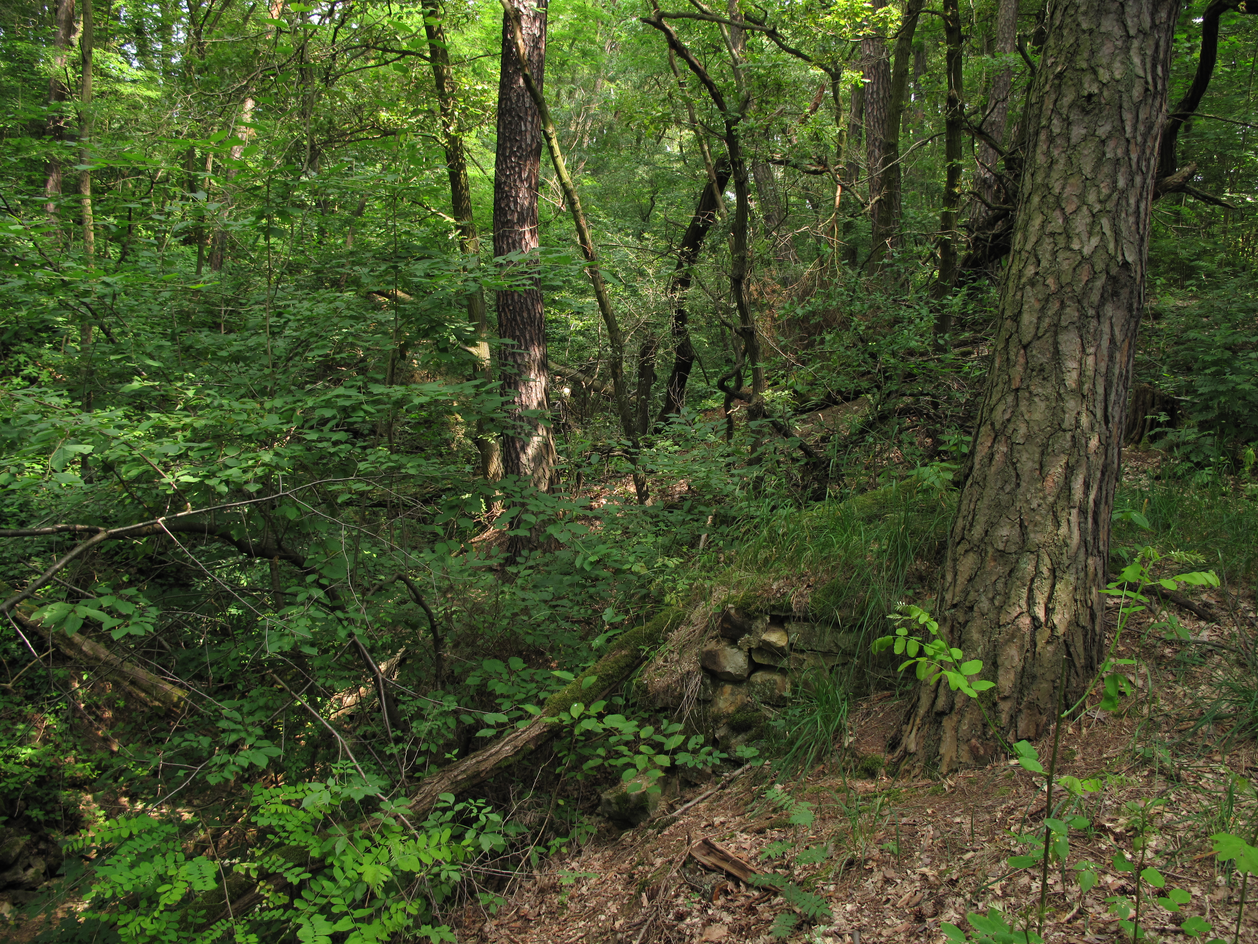 Canyon in natural monument Rokycanská stráň, Rokycany town, Czech Republic.